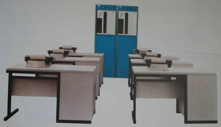 Olympia Multiplex 80